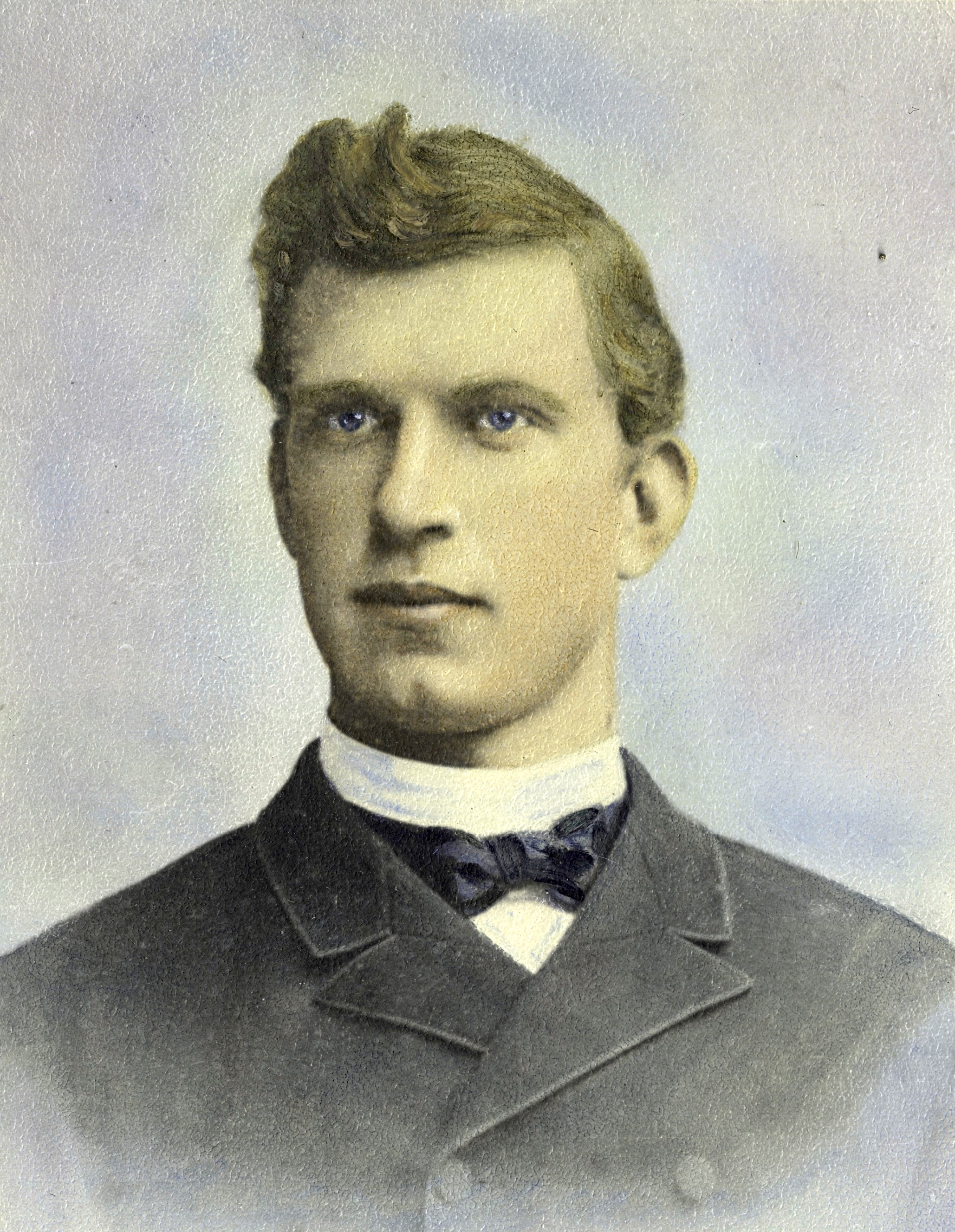 Swedish missionary to Shantung (Shandong), China. Born November 27, 1866 in Sweden and died July 3, 1941 in Tsingtao (Qingdao), China.